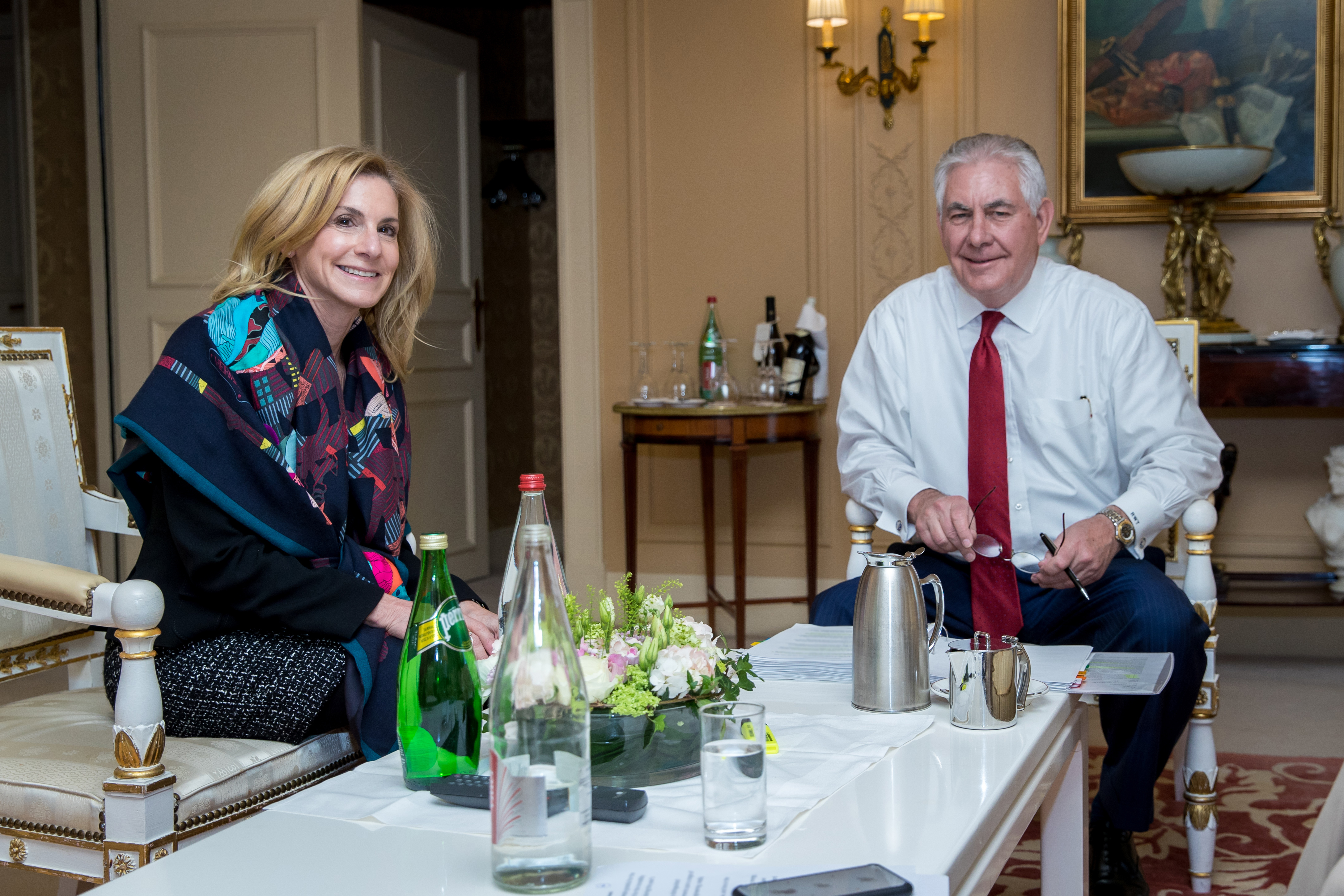 U.S. Secretary of State Rex Tillerson meets United States Ambassador to France Jamie McCourt at the Intercontinental Hotel in Paris, France on January 23, 2018. [State Department Photo/Public Domain]